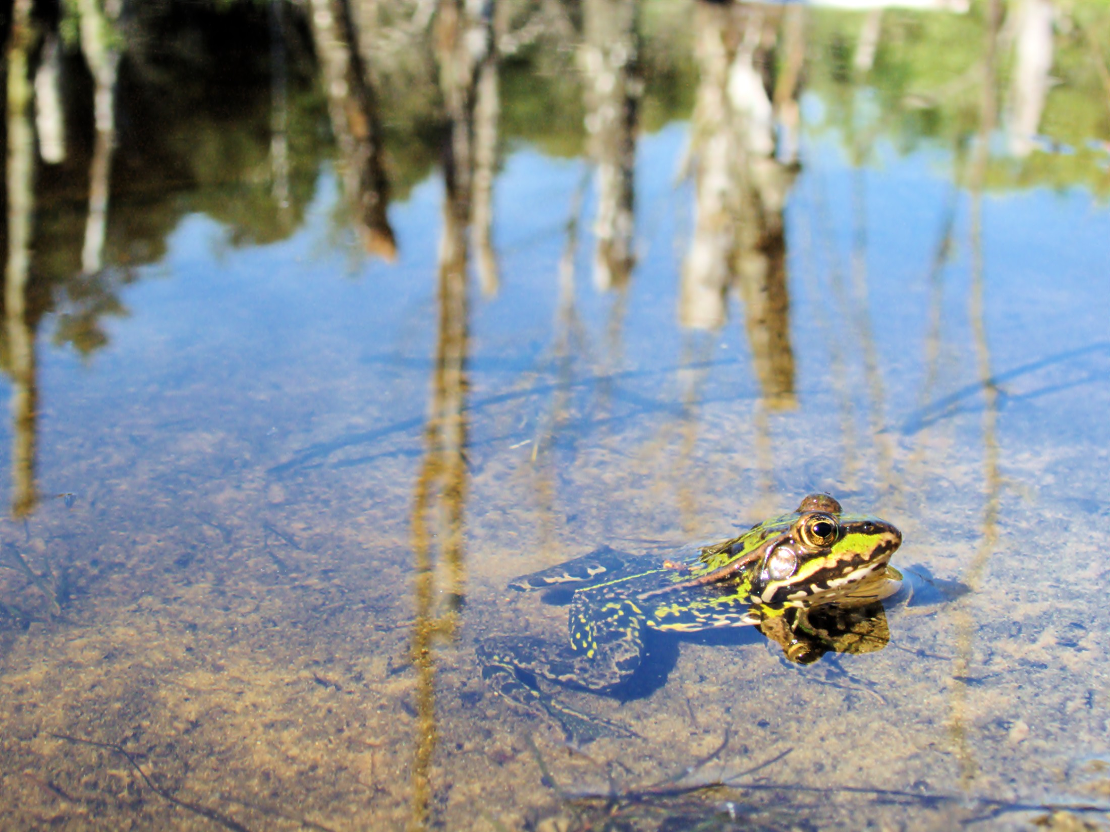 Name: Rana sp. in a birch swamp - quite likely Rana kl. esculenta (female). Family: Ranidae. Location: Münster, NRW, Germany